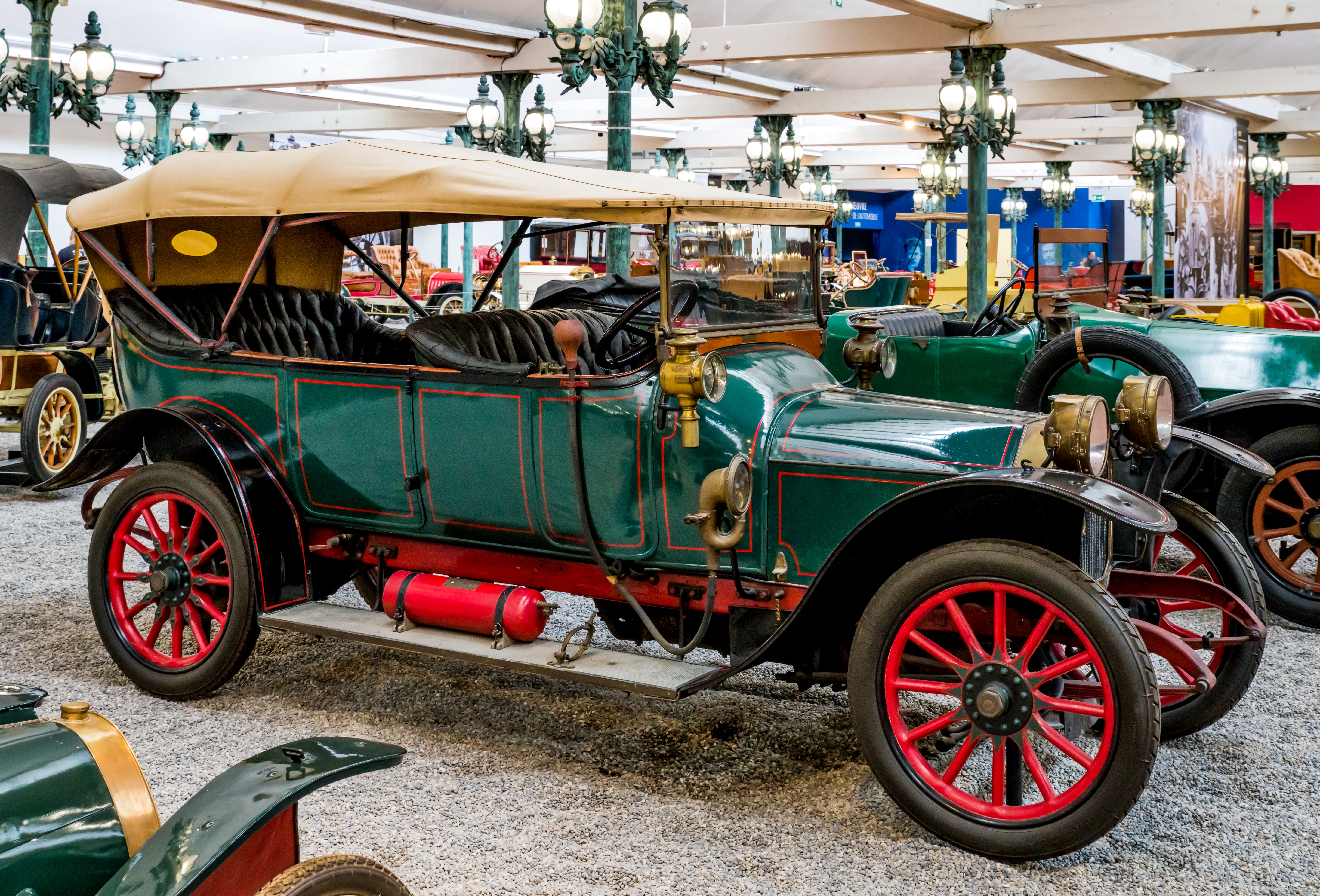 pictures from the Cité de l’Automobile – Musée National – Collection Schlump in Mulhouse, France ptictures from the 10. may 2018